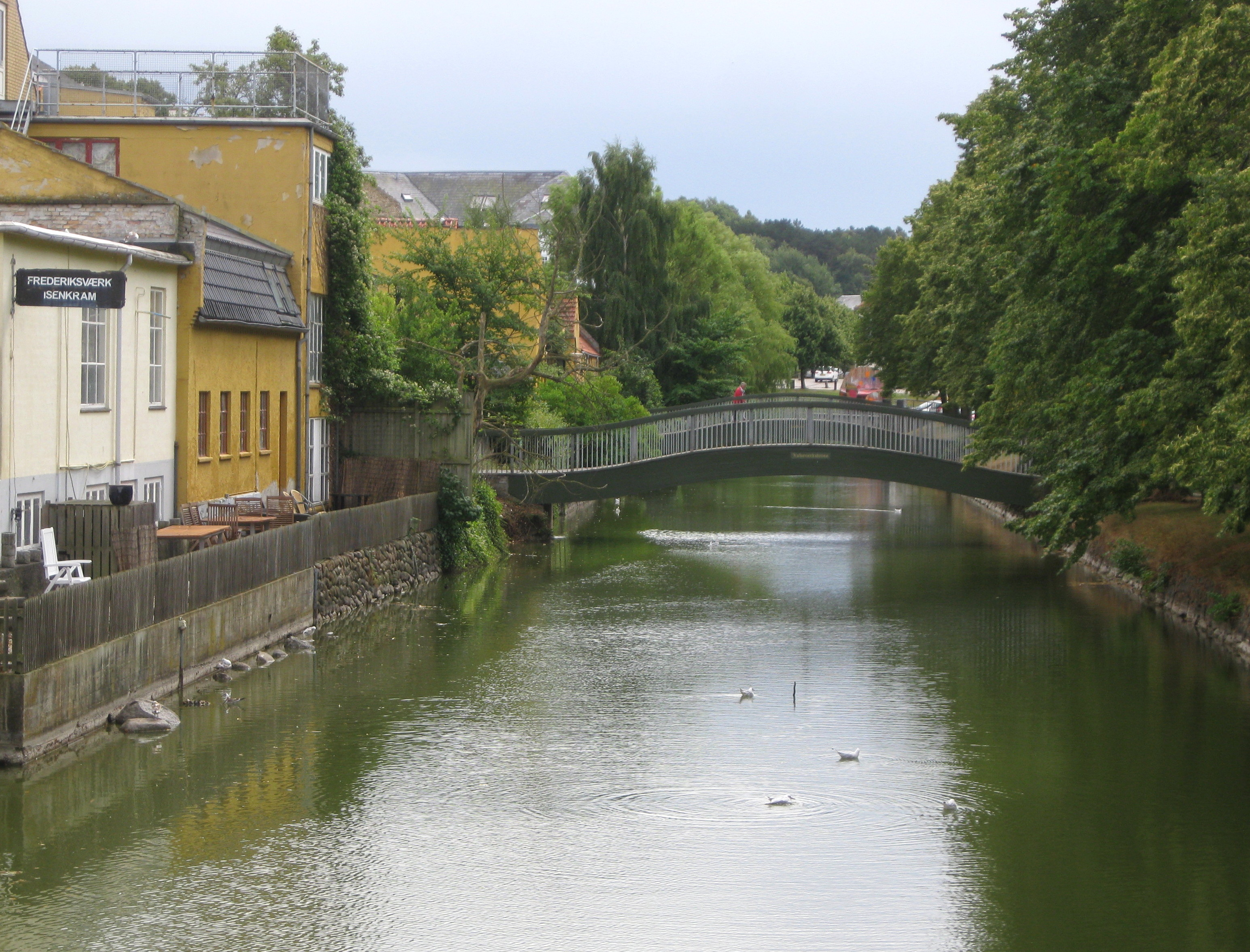 View at the canal in the town "Frederiksværk". The town is located in North Zealand, east Denmark.